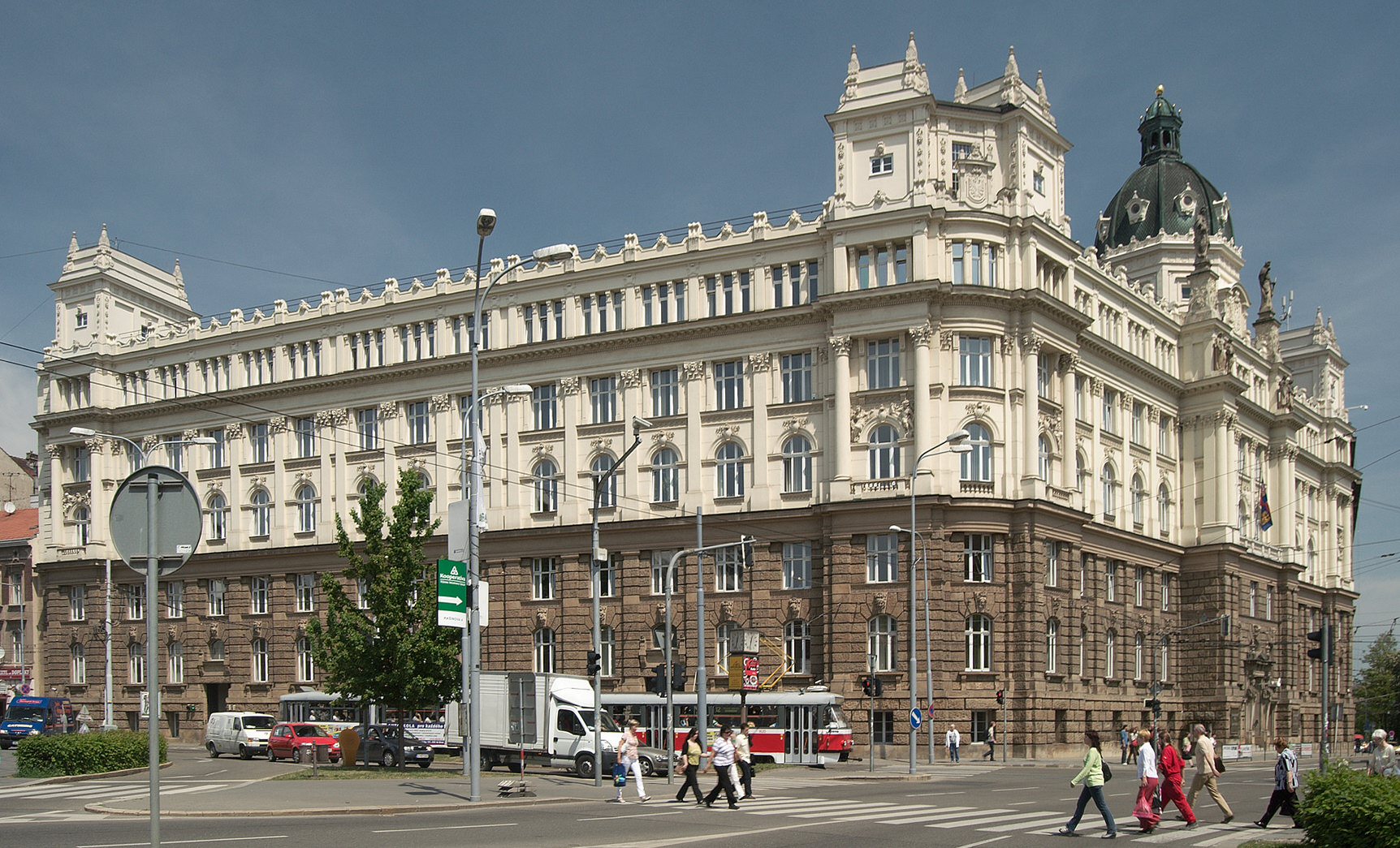 Brno-Veveří - New regional palace (or New land house) from southwest